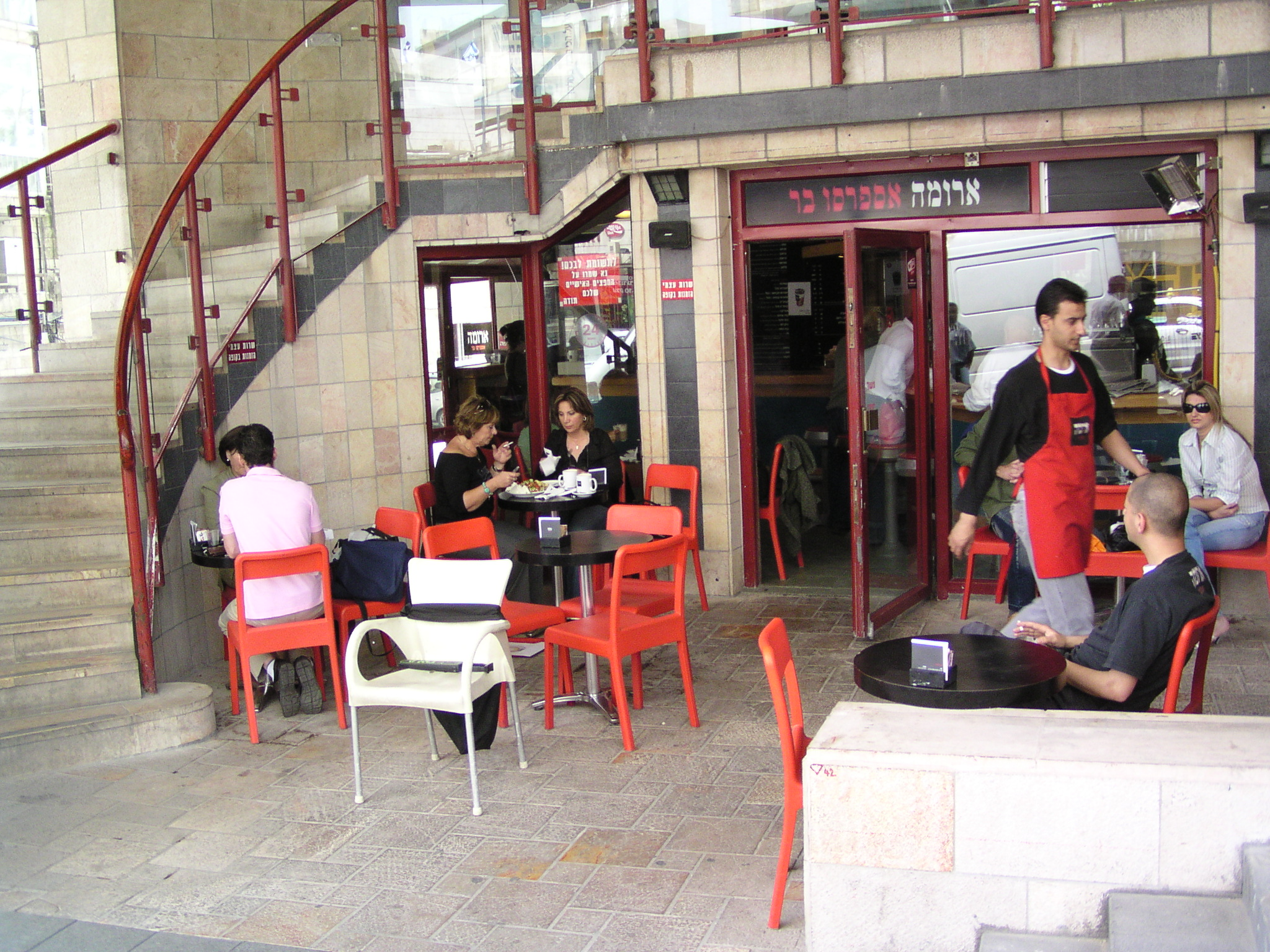 Aroma coffee shop on Hilel Street, Jerusalem, Israel. In the image, a waiter is going to clean a table. The security person was momentarily absent while this image was taken. This is Aroma's (Israeli chain of coffee shops) first shop.